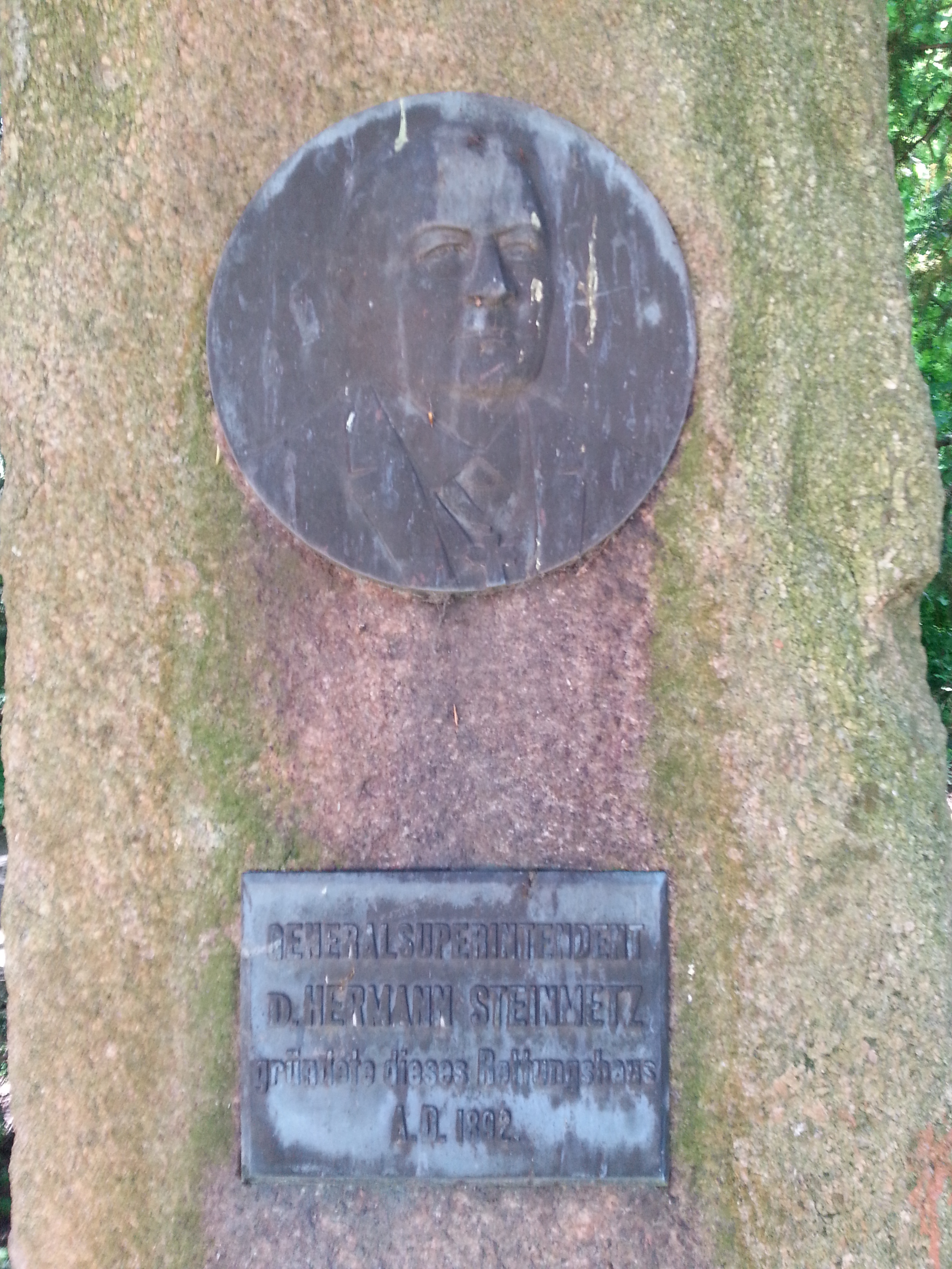 Monument for Hermann Christian Ludwig Steinmetz (1831-1903), general superintendent of the Bremen-Verden General Diocese of the Church of Hanover (1885-1902), who in 1891 bought the former Amtshaus (now called Steinmetz-Haus) in order to found there a Rettungshaus (i.e. rescue house, an educational and benevolent institution for neglected children), from 1892 to 1943 run by the Inner Mission.